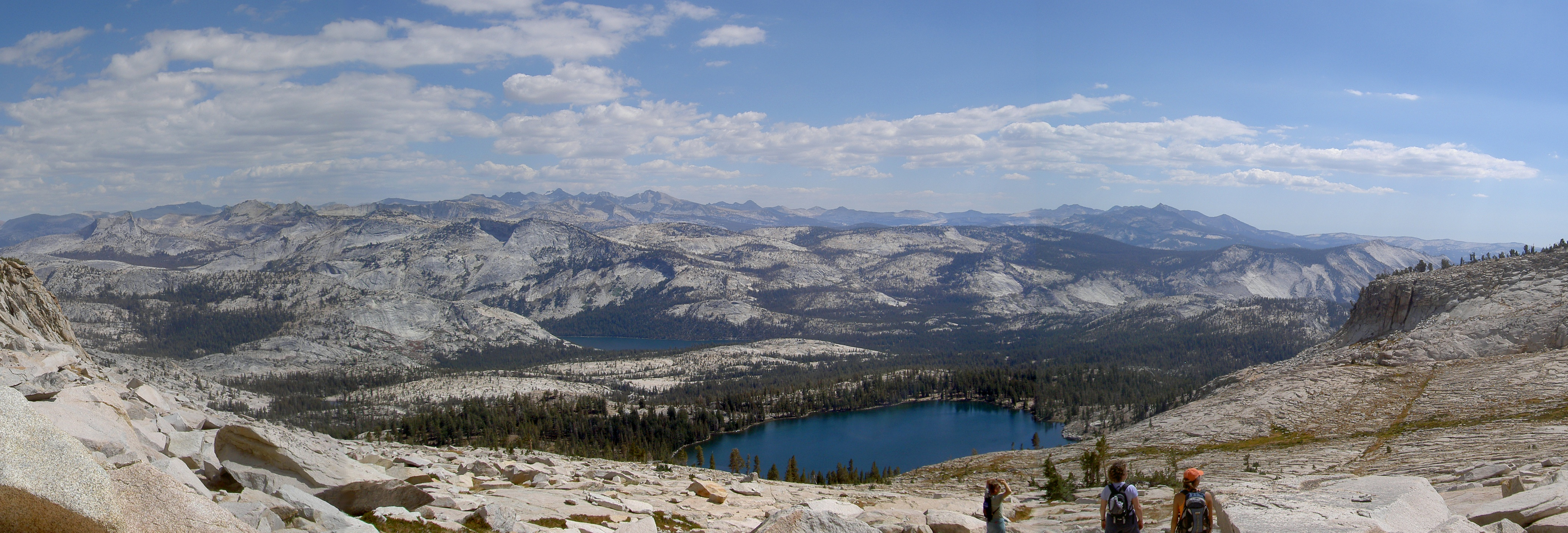 Panoramic of May Lake, Yosemite National Park